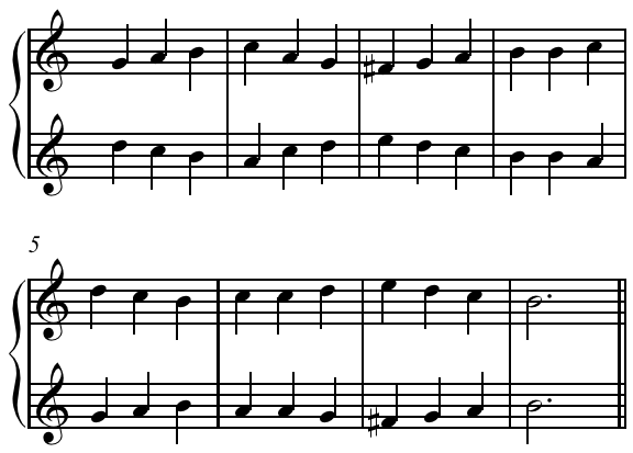 Mirror canon. Created by Hyacinth (talk) 01:26, 10 November 2011 (UTC) using Sibelius 5.